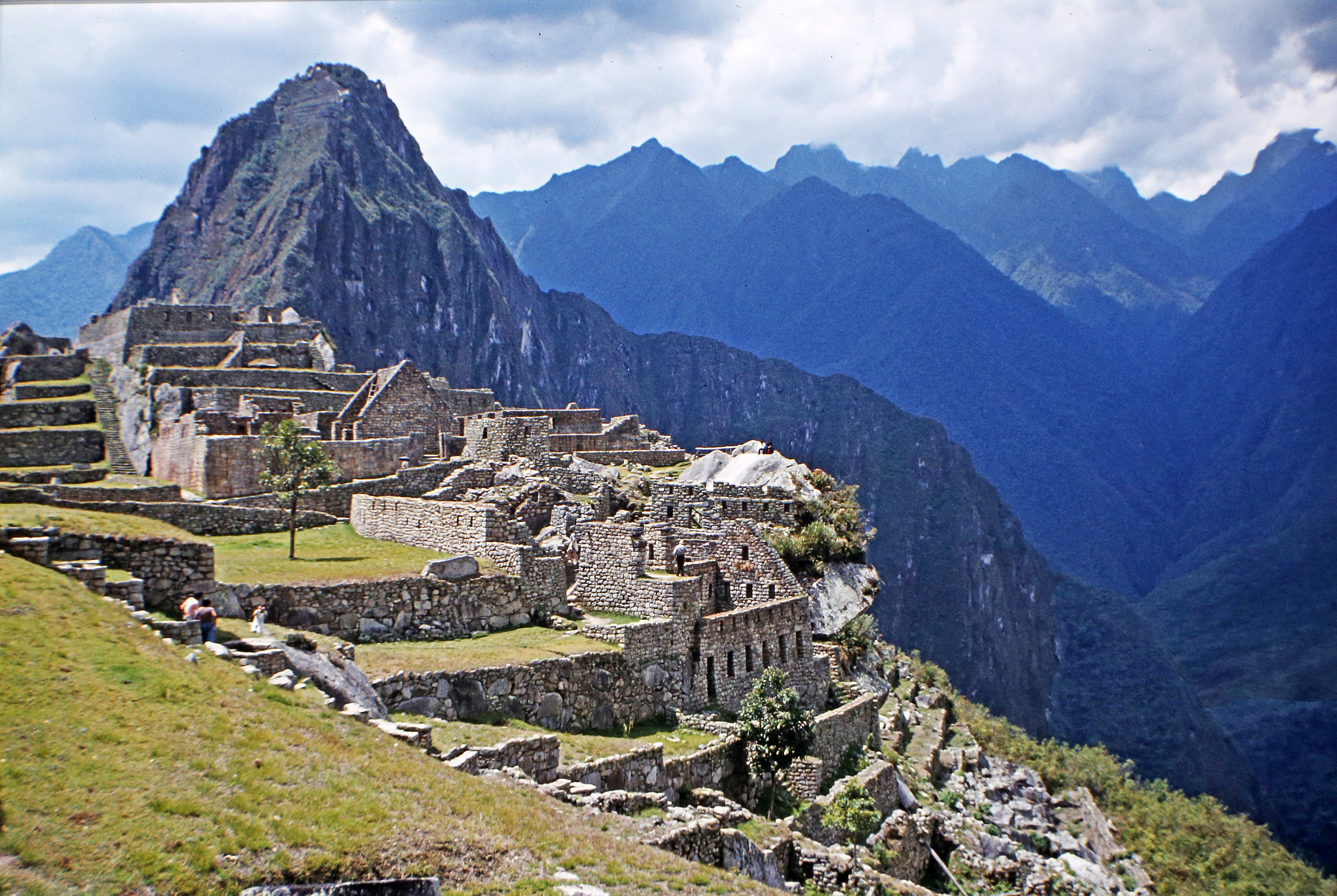 Machu Picchu with the Huayna peak: The ruined city was built by the Incas in the 15th century at an altitude of 2,430 meters in the Andes (Peru).